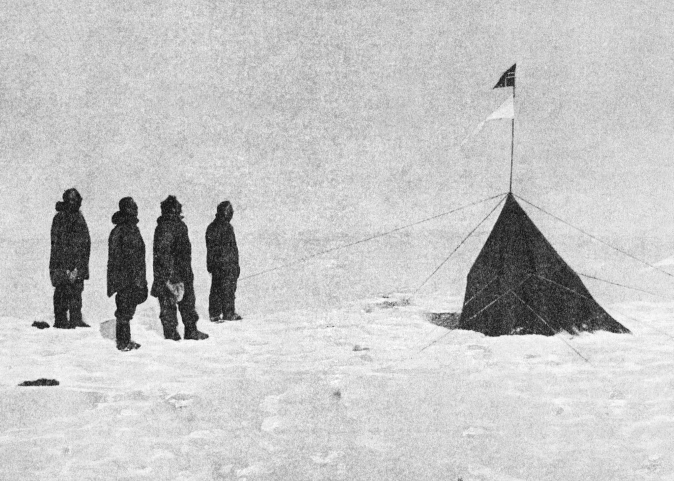 Amundsen Expedition at the South Pole (from left to right): Roald Amundsen, Helmer Hanssen, Sverre Hassel and Oscar Wisting